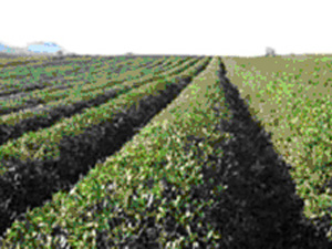 A tea plantation in Guria, Georgia, rehabilitated with USAID assistance